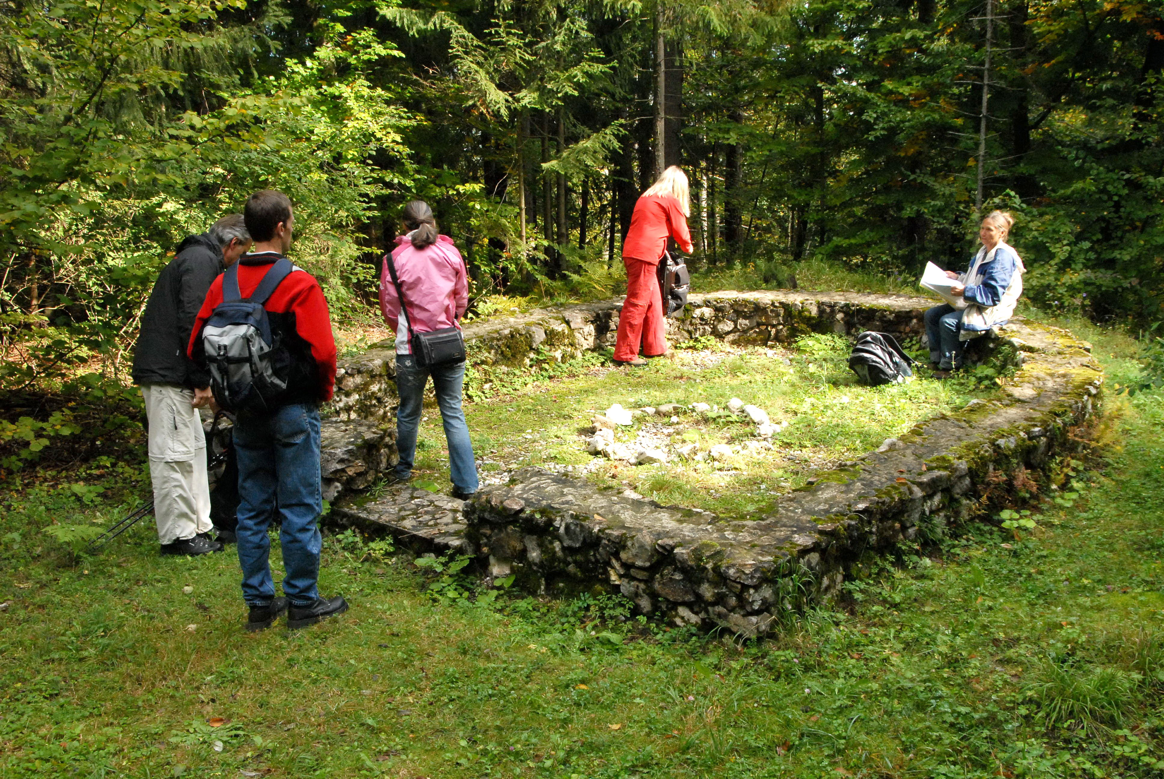 Excavated foundation walls of an early Christian church on the Tscheltschnigkogel near “Warmbad” in Villach, Carinthia, Austria